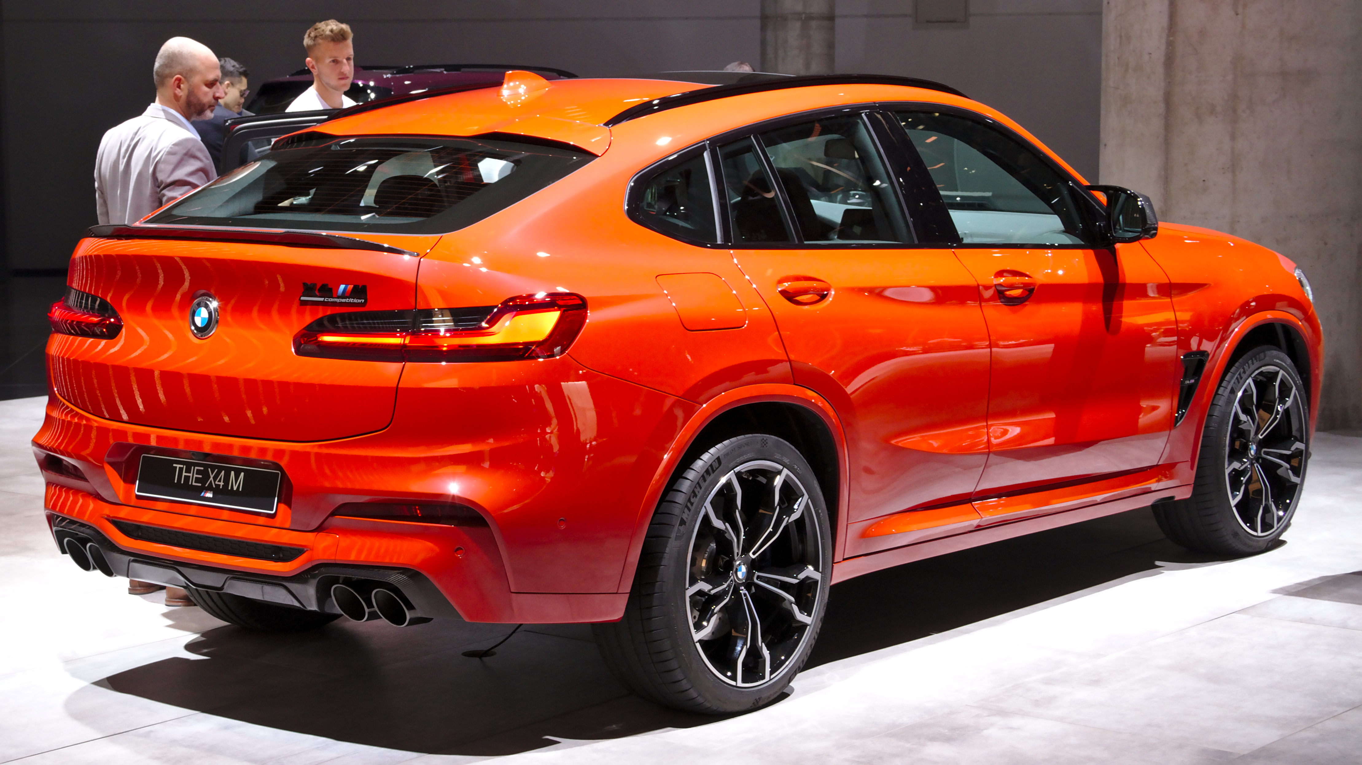 BMW_X4_M_(G02) at IAA 2019